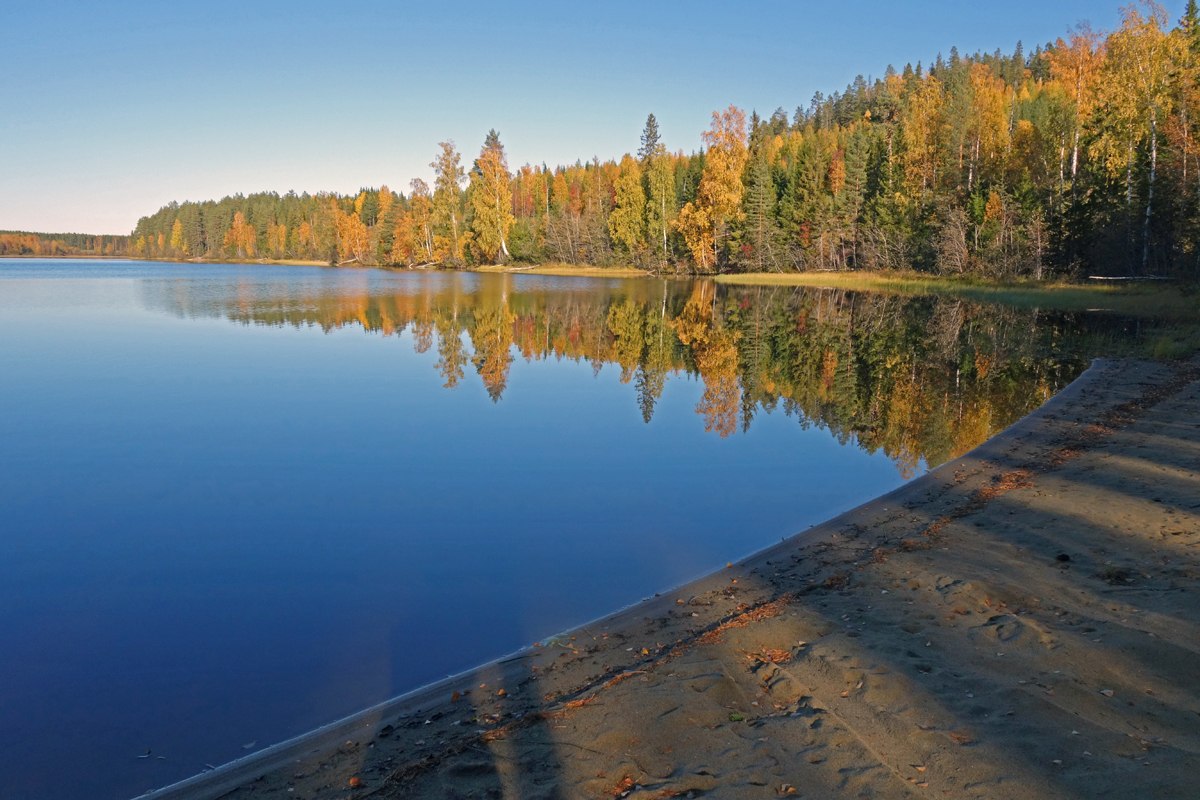 Lake Gvorrsjön in Nordmaling Municipality, northern Sweden.